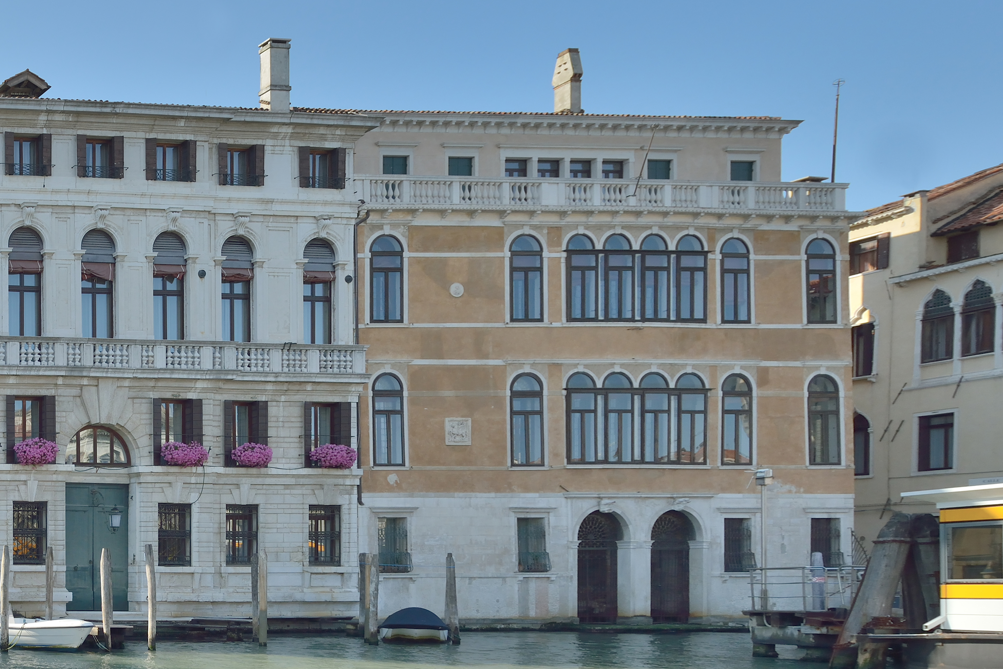 Palazzo Dandolo Paolucci on the Canal Grande in Venice.